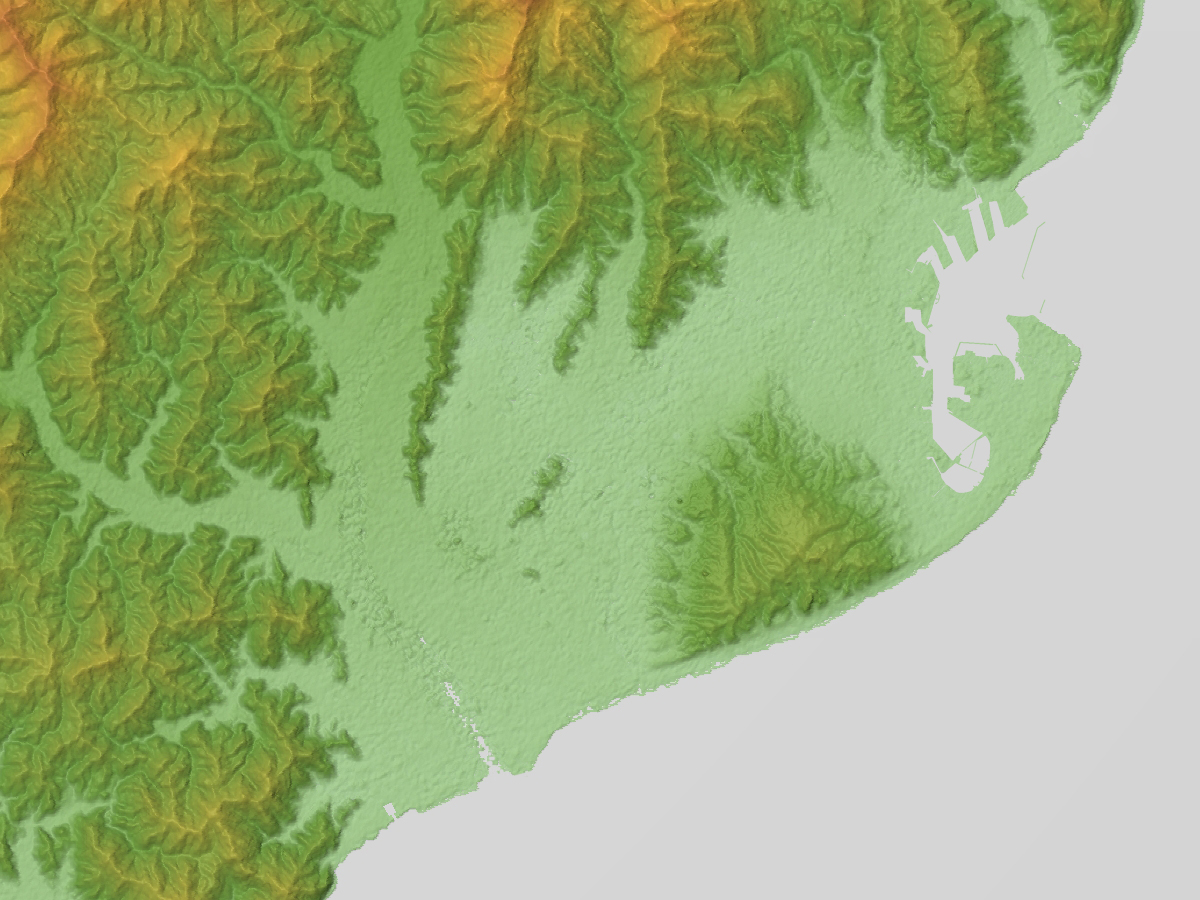 Shizuoka Plain in Shizuoka Prefecture, Honshu, Japan.